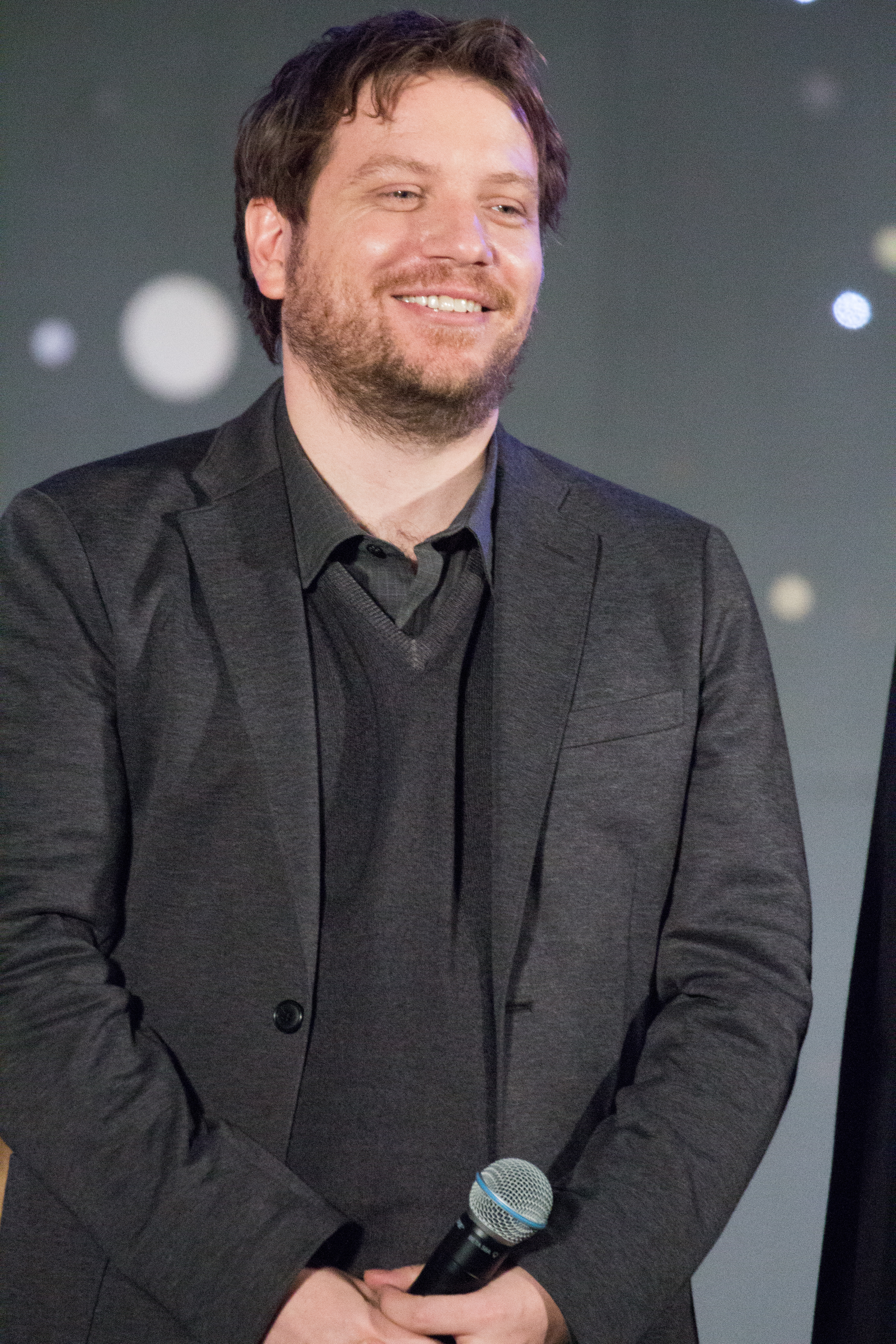 Gareth Edwards at Rogue One: A Star Wars Story Japan Premiere Red Carpet on December 8, 2016.